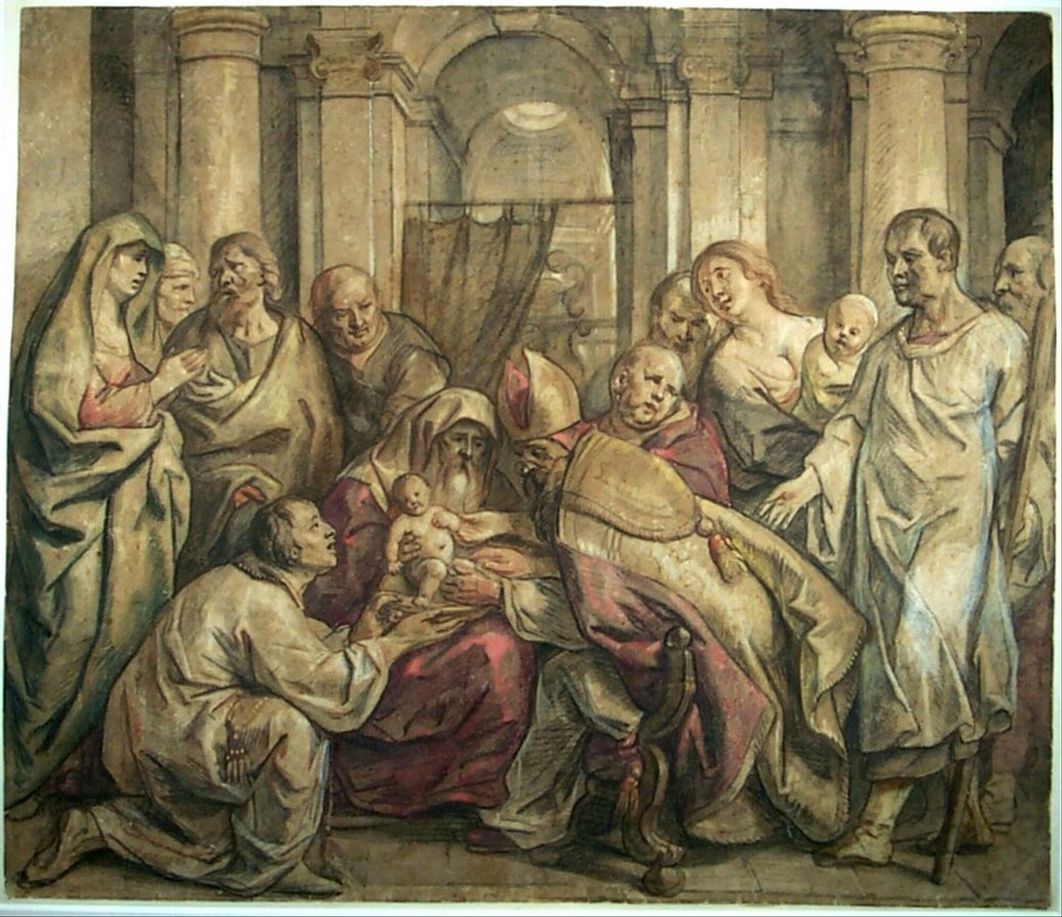 The Circumcision